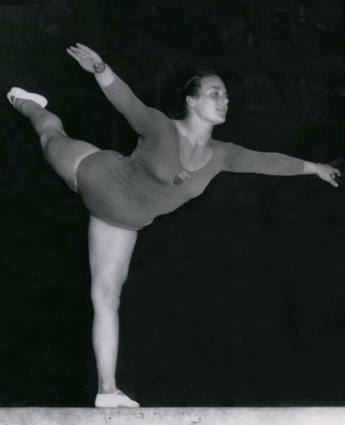 1956 Press Photo Joyce M Racek Gymnast At Melbourne Australia Olympics